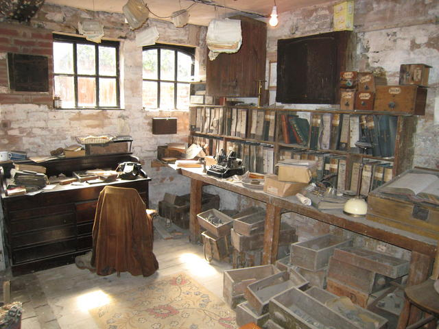 Brass Foundry Office, Bewdley Museum Bewdley Museum includes a Brass Foundry, of which this is the Foundry office. Sadly due to modern Health and Safety rules the museum has had to cease demonstration of the foundry in operation. The office has however been left intact.